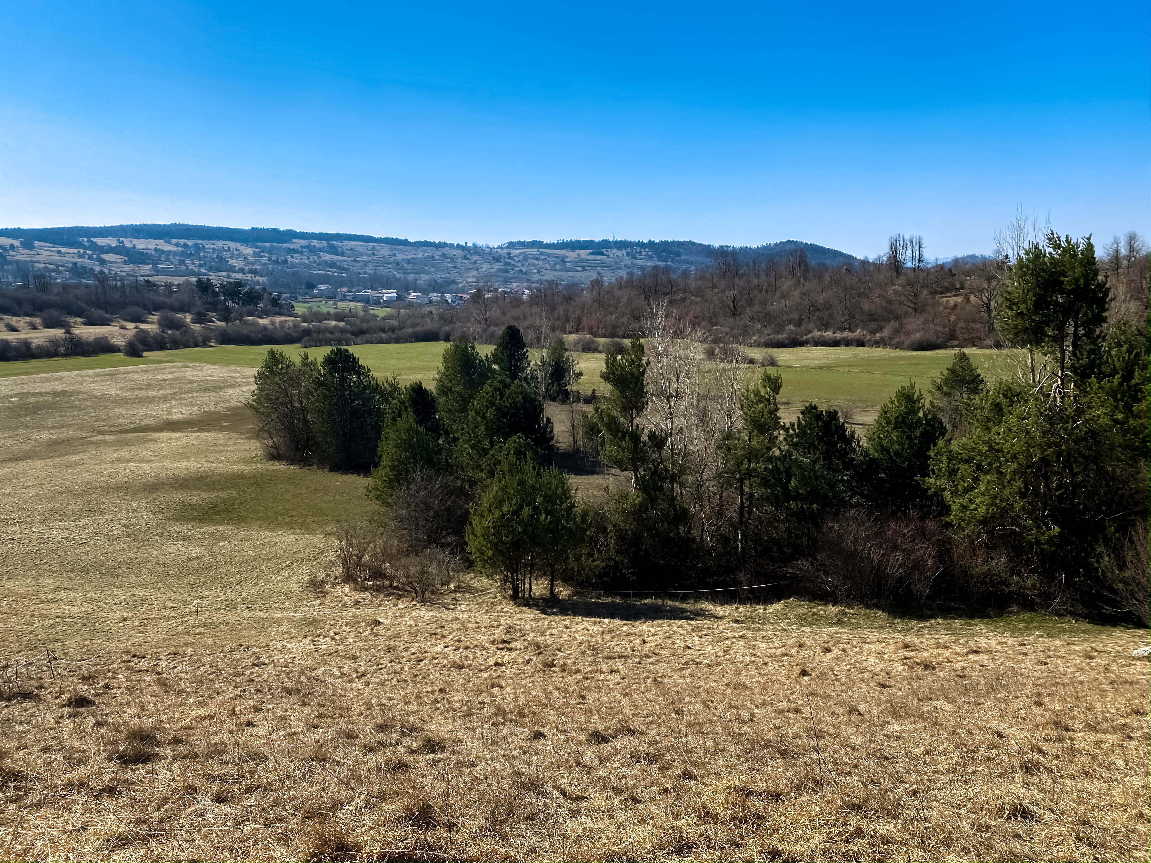 presahnjeno Kalško jezero skrito med drevesi, v ozadju vidna Šilentabor in Zagorje